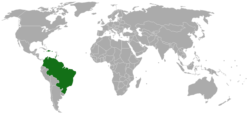 Anadenanthera peregrina range map. Made with Wikimedia Commons blank map, ILDIS LegumeWeb info and GIMP software.